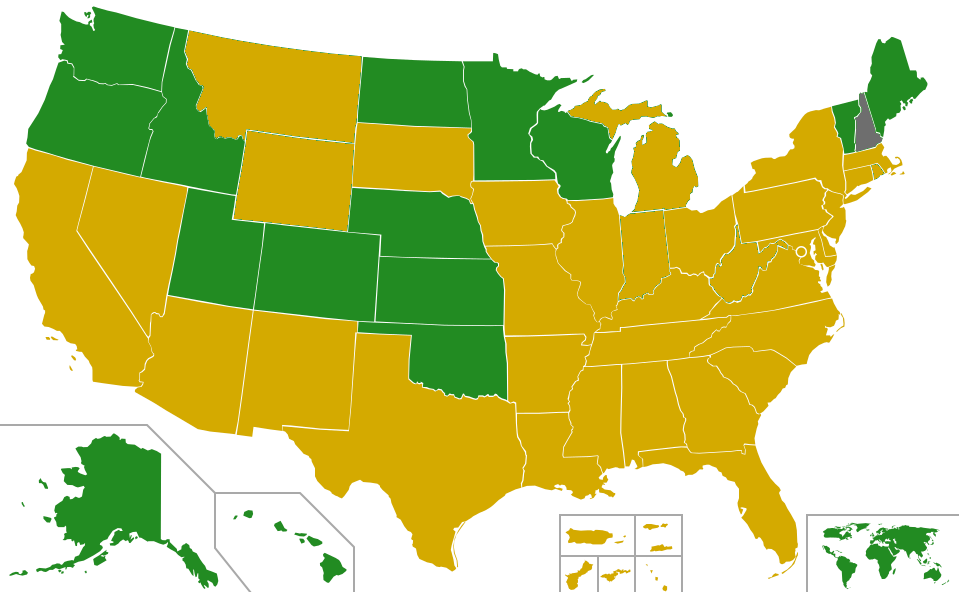 Map of Convention Roll Call results by state/territory for the 2016 Democratic presidential primary election. Results announced on July 26th, 2016.